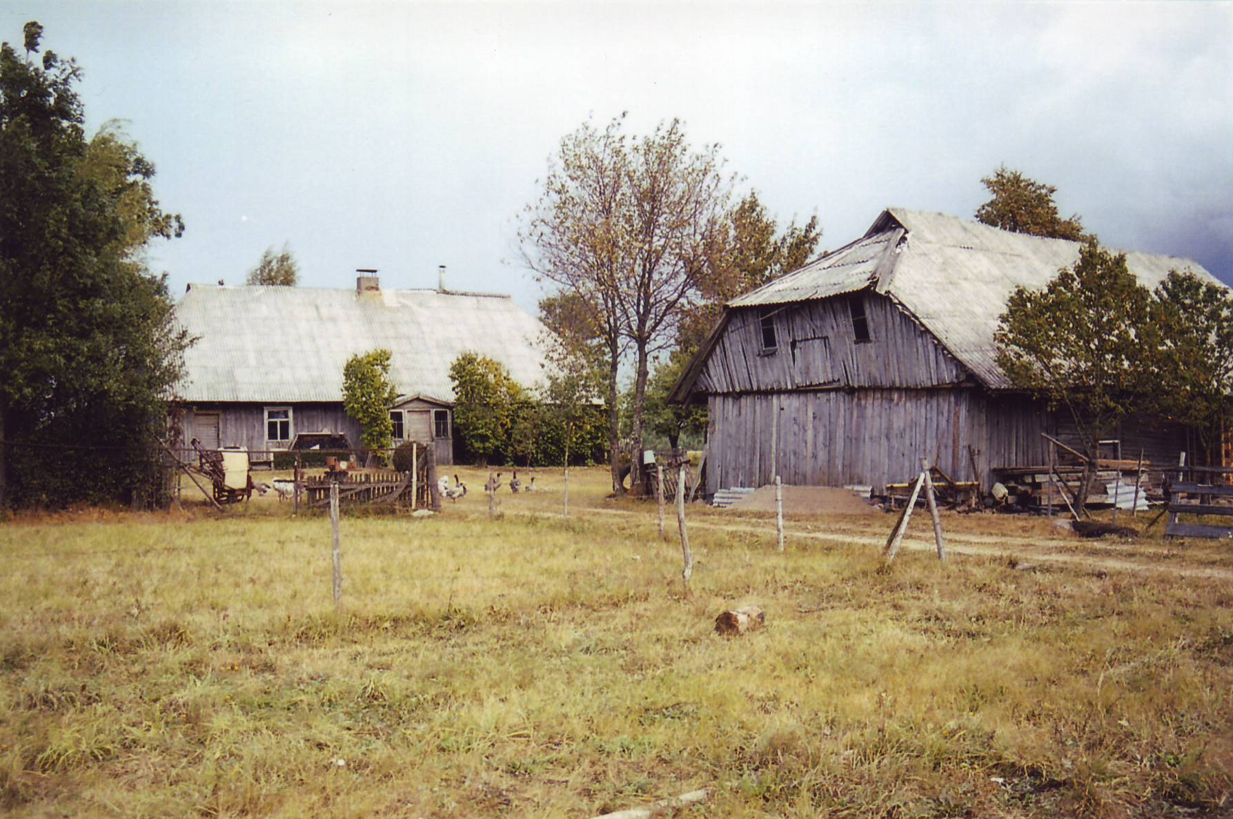 Jakštaičiai village, Kretinga district, Lithuania